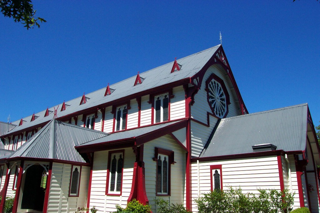 Side view of the church of St Andrew's at Rangi Ruru school (Christchurch, NZ).